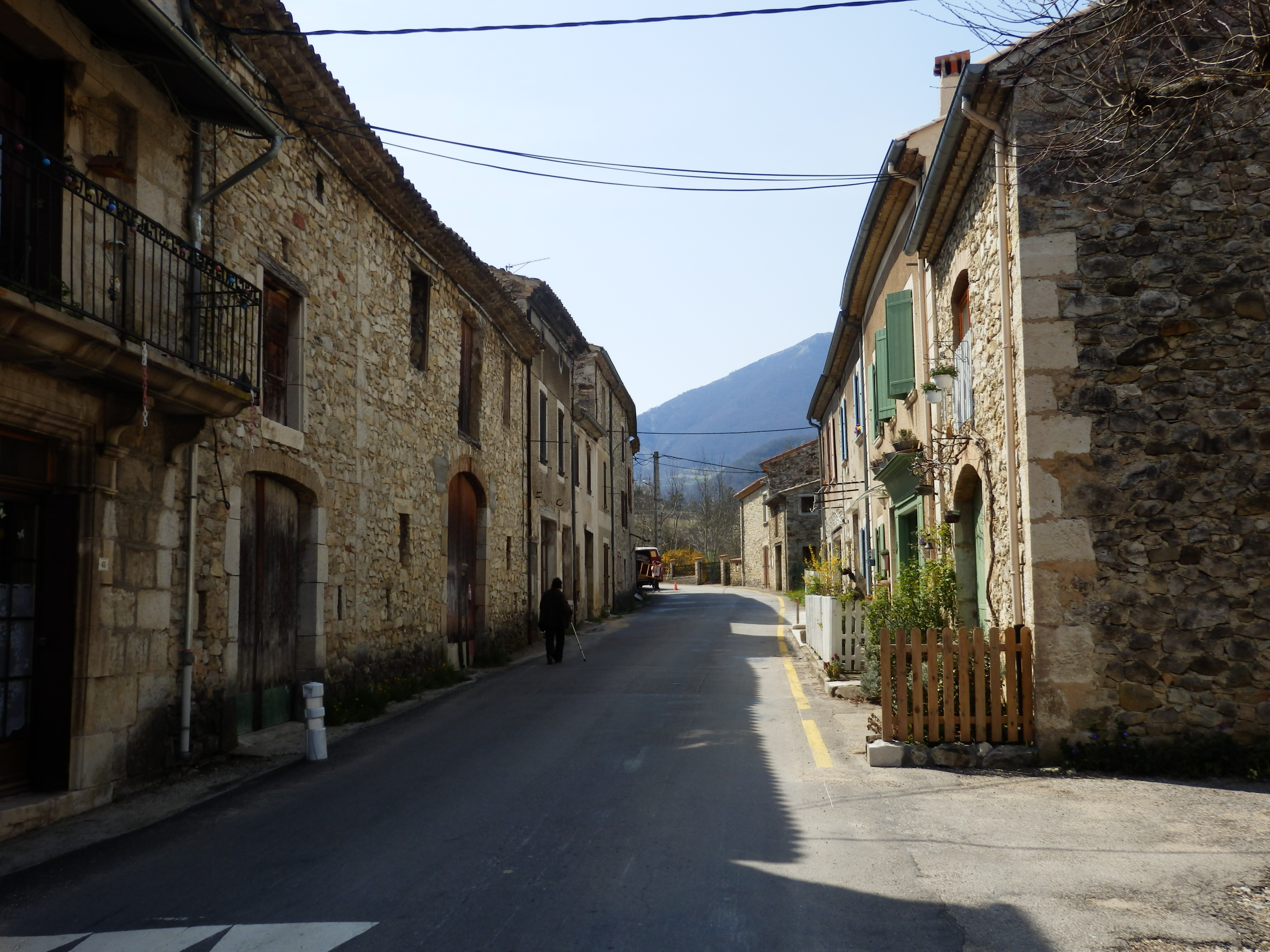 Main street of Bouvières, Drôme, France